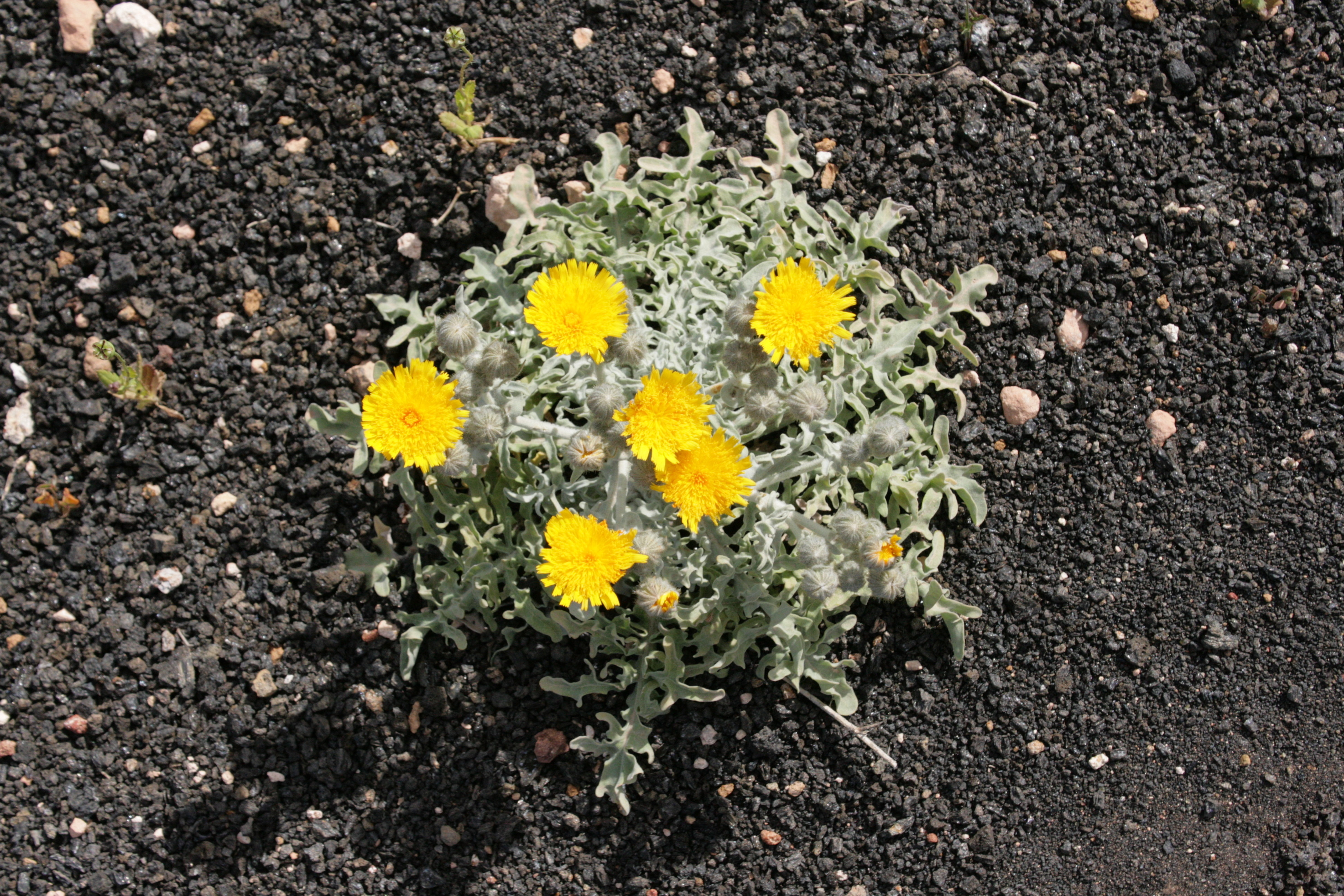 Andryala glandulosa growing in lapilli at Camino del Mesón in Tías, Lanzarote, Canary Islands